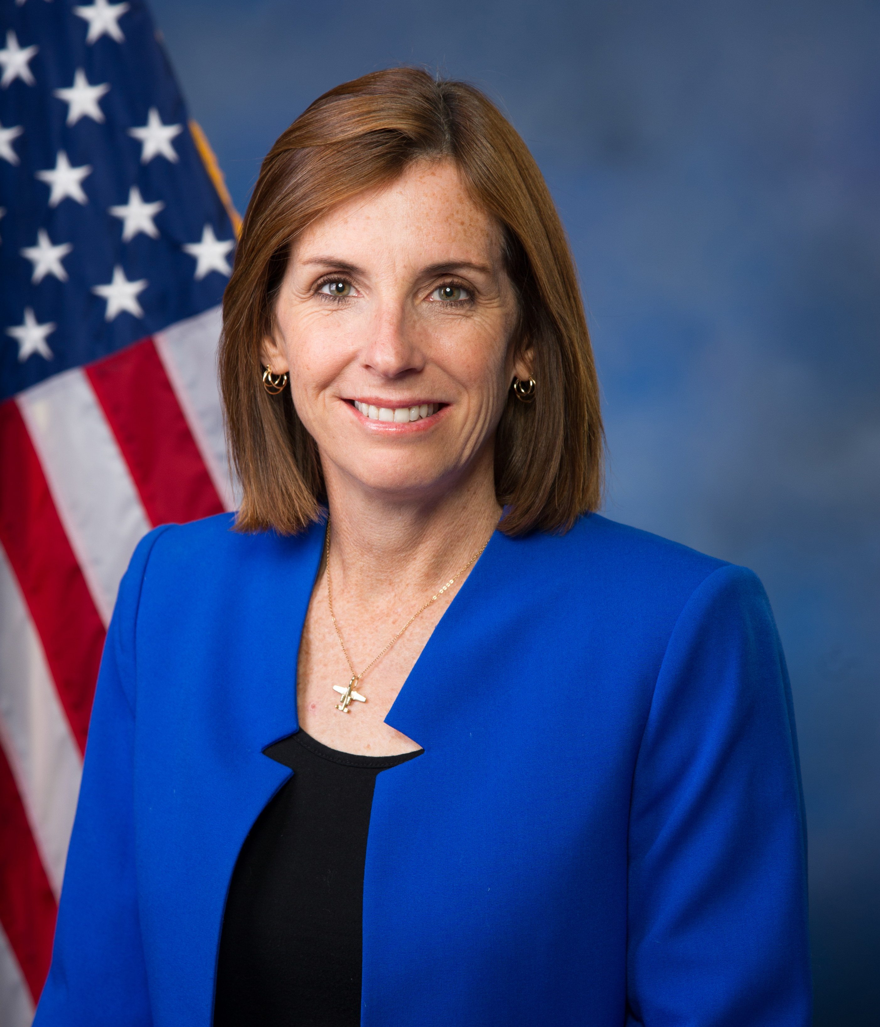 Martha McSally official photo, 114th Congress